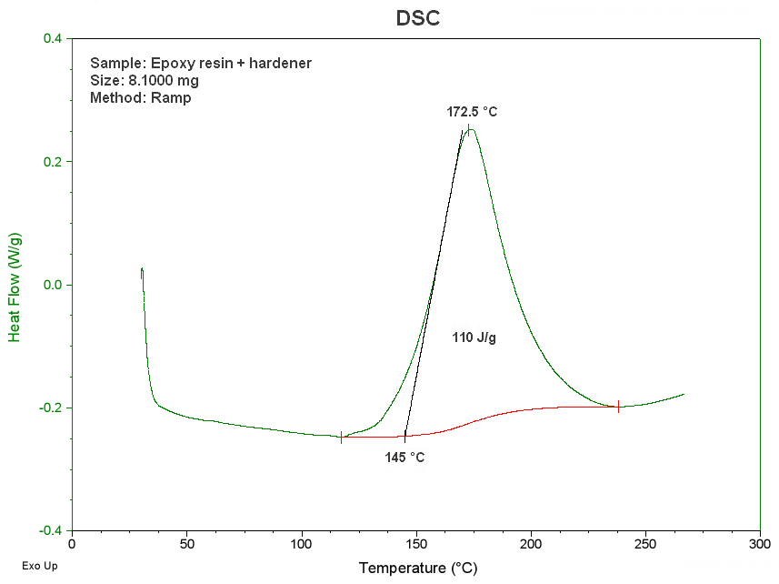 DSC thermogram of a crude thermosetting adhesive based on epoxy resin + hardener; heating rate=10 °C/min (first pass) from 30 °C under nitrogen flux. The thermogram shows the exothermic peak corresponding to the cross-linking.